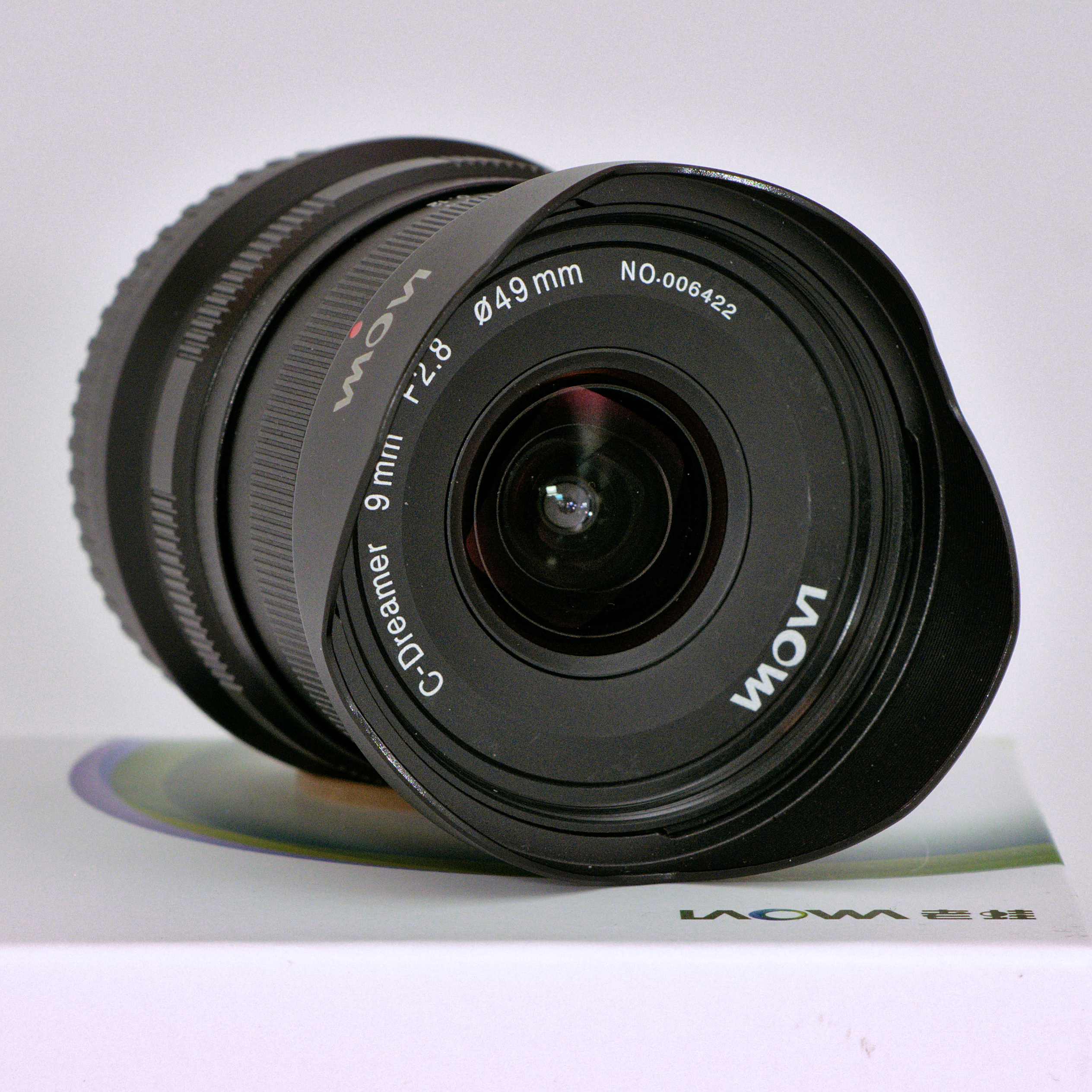 Venus Optics Laowa 9 mm f/2.8 Zero-Distortion Dreamer super wide angle lens with metal lens hood, version Fuji X-Mount, frontal view